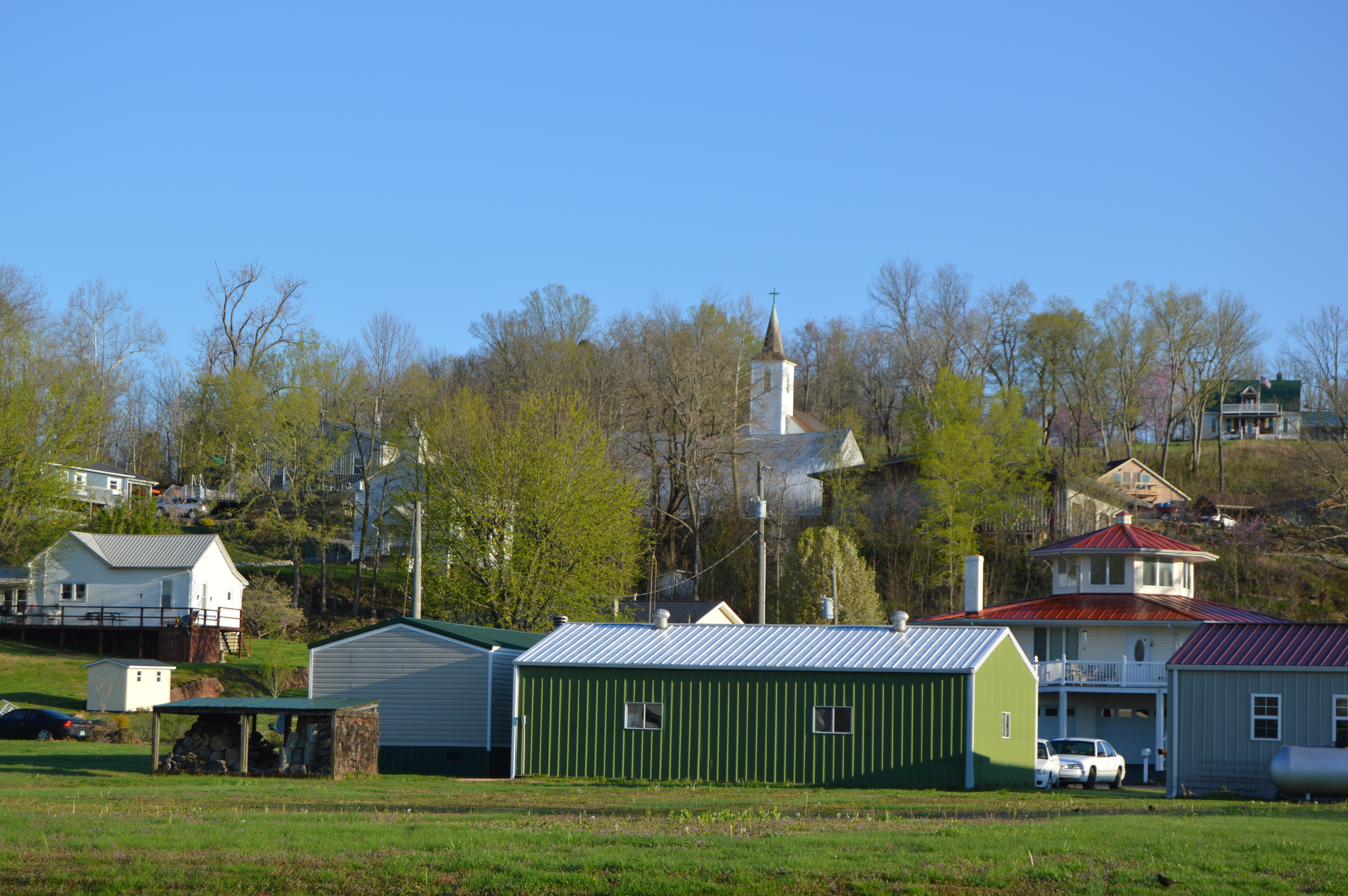 Houses and other buildings in Derby, Indiana, United States, seen looking northwest from the junction of State Roads 66 and 70.